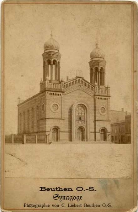 synagogue in Beuthen (now Bytom)